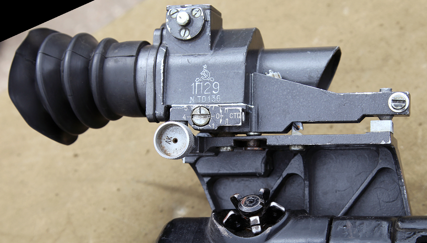 1P29 scope